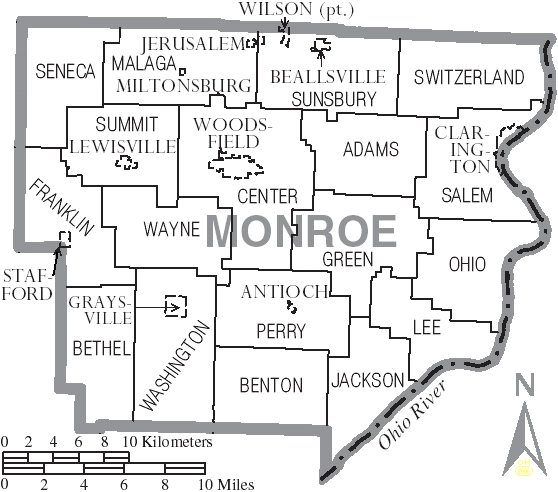 Map of Monroe County, Ohio, United States with township and municipal boundaries